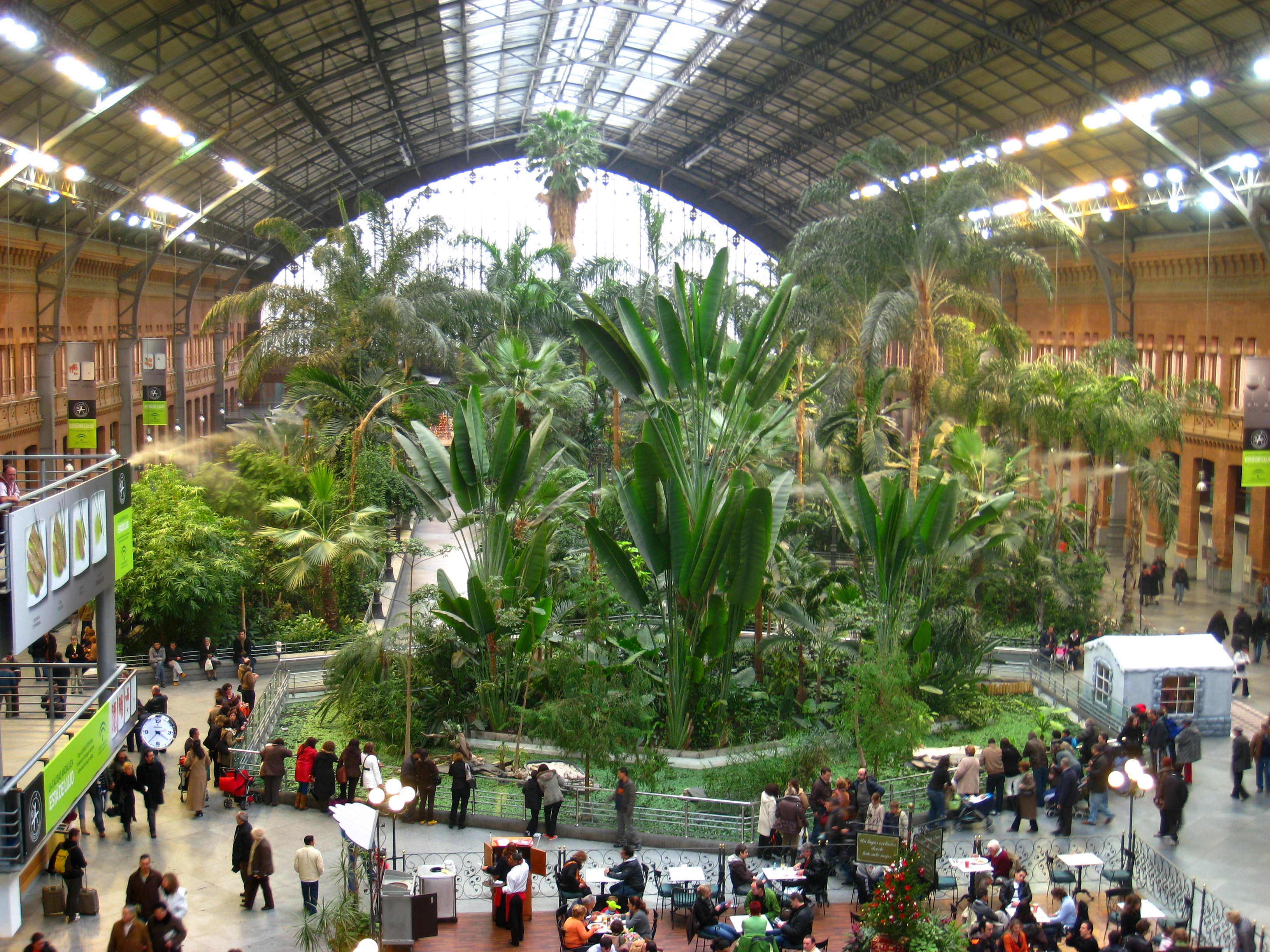 Invernadero de Atocha, Madrid, Spain. I took this photograph.